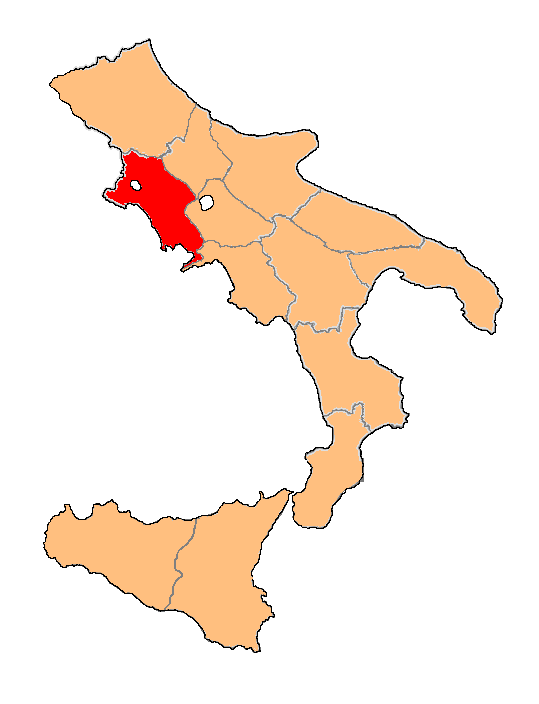 Locator map of Giustizierato of Terra di Lavoro, a department of the Kingdom of Sicily (Internal borders: period 1231-1273)